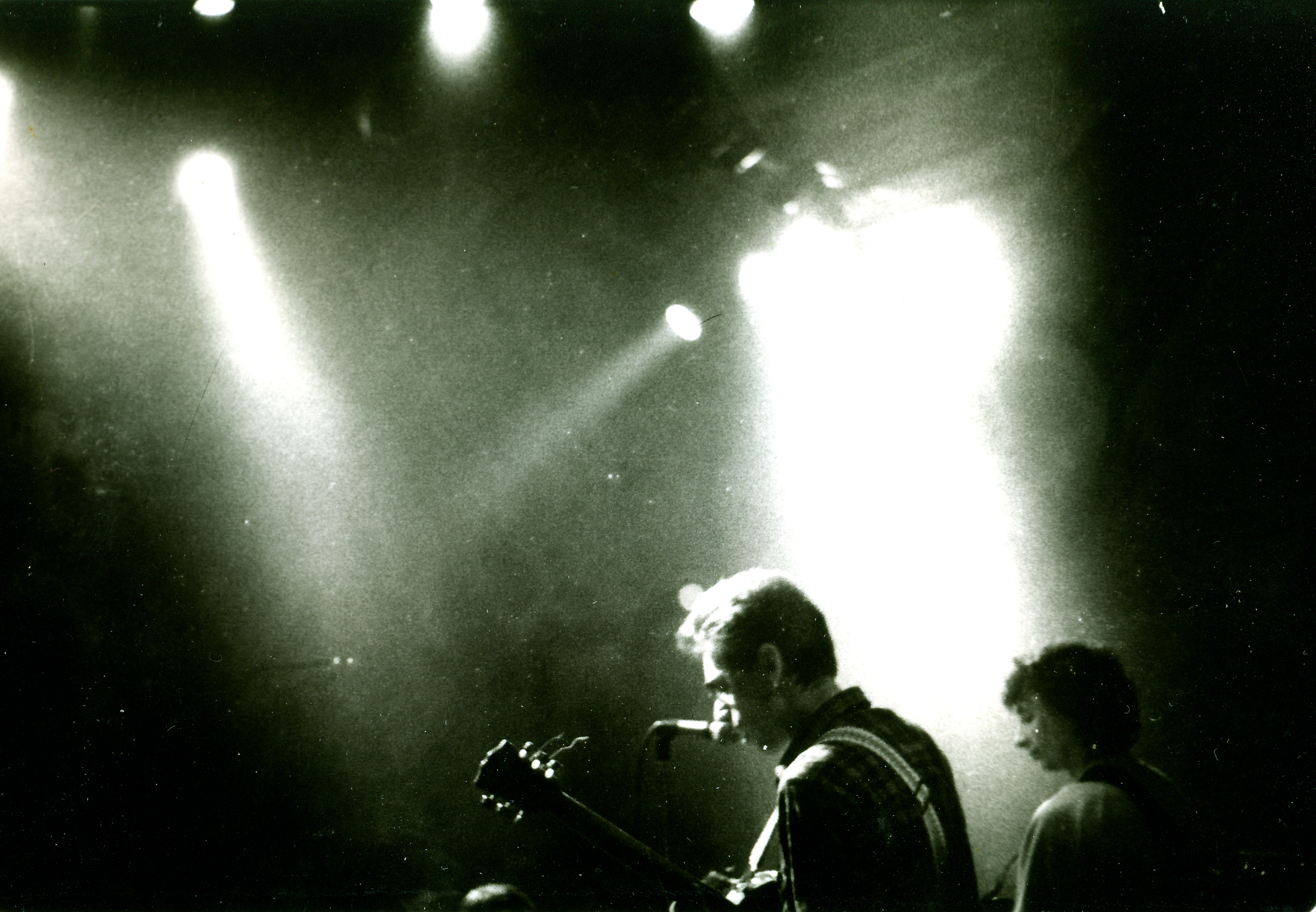 Aleksandar Vasiljevic - Vasa, guitarist and Aleksandar Lukic - Luka, bass guitarist in the serbian band "U škripcu"